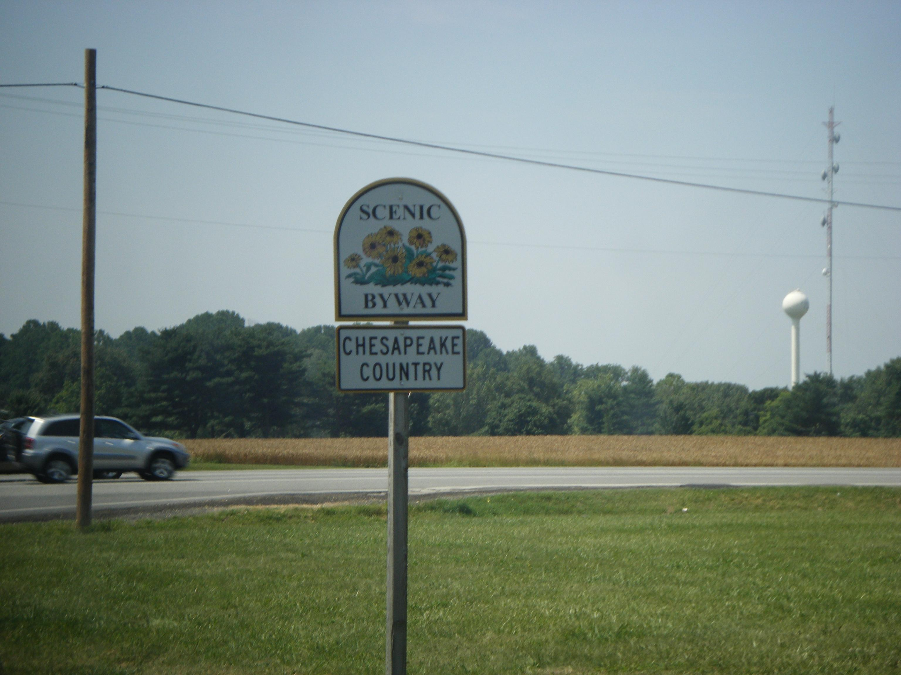 Marker for the Chesapeake Country Scenic Byway on southbound Maryland Route 213 before the intersection with U.S. Route 50 in Wye Mills, Maryland